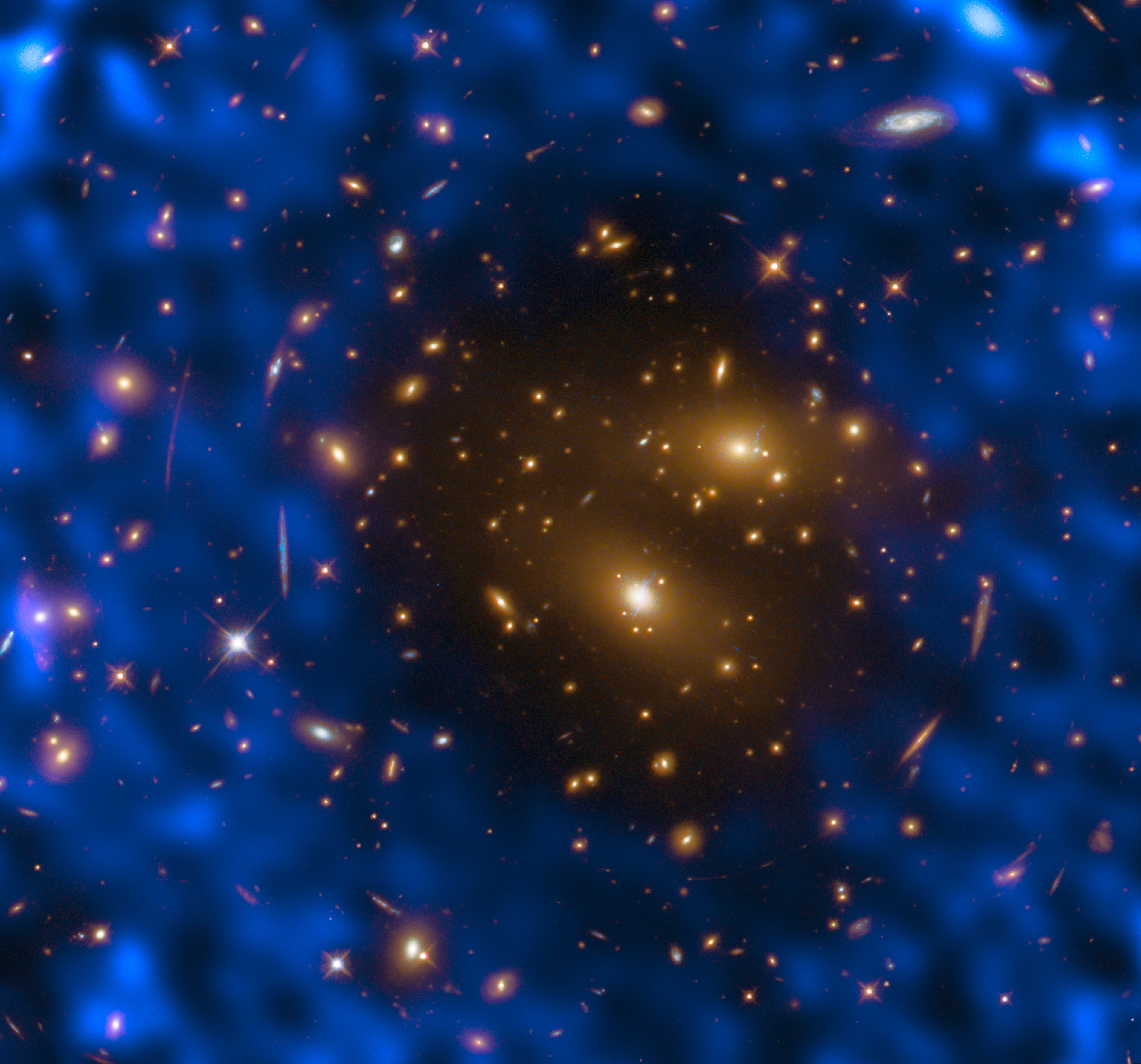 The events surrounding the Big Bang were so cataclysmic that they left an indelible imprint on the fabric of the cosmos. We can detect these scars today by observing the oldest light in the Universe. As it was created nearly 14 billion years ago, this light — which exists now as weak microwave radiation and is thus named the cosmic microwave background (CMB) — has now expanded to permeate the entire cosmos, filling it with detectable photons. The CMB can be used to probe the cosmos via something known as the Sunyaev-Zel’dovich (SZ) effect, which was first observed over 30 years ago. We detect the CMB here on Earth when its constituent microwave photons travel to us through space. On their journey to us, they can pass through galaxy clusters that contain high-energy electrons. These electrons give the photons a tiny boost of energy. Detecting these boosted photons through our telescopes is challenging but important — they can help astronomers to understand some of the fundamental properties of the Universe, such as the location and distribution of dense galaxy clusters. This image shows the first measurements of the thermal Sunyaev-Zel’dovich effect from the Atacama Large Millimeter/submillimeter Array (ALMA) in Chile (in blue). Astronomers combined data from ALMA’s 7- and 12-metre antennas to produce the sharpest possible image. The target was one of the most massive known galaxy clusters, RX J1347.5–1145, the centre of which shows up here in the dark “hole” in the ALMA observations. The energy distribution of the CMB photons shifts and appears as a temperature decrease at the wavelength observed by ALMA, hence a dark patch is observed in this image at the location of the cluster. Links ESA/Hubble Picture of the Week